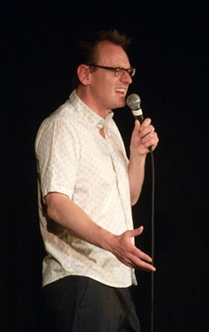 Sean Lock performing at The Hexagon in Reading, Berkshire in 2008